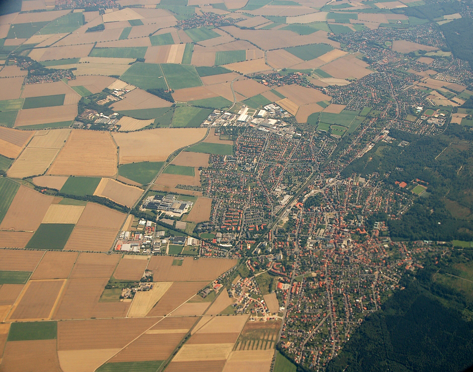 Aerial photographs